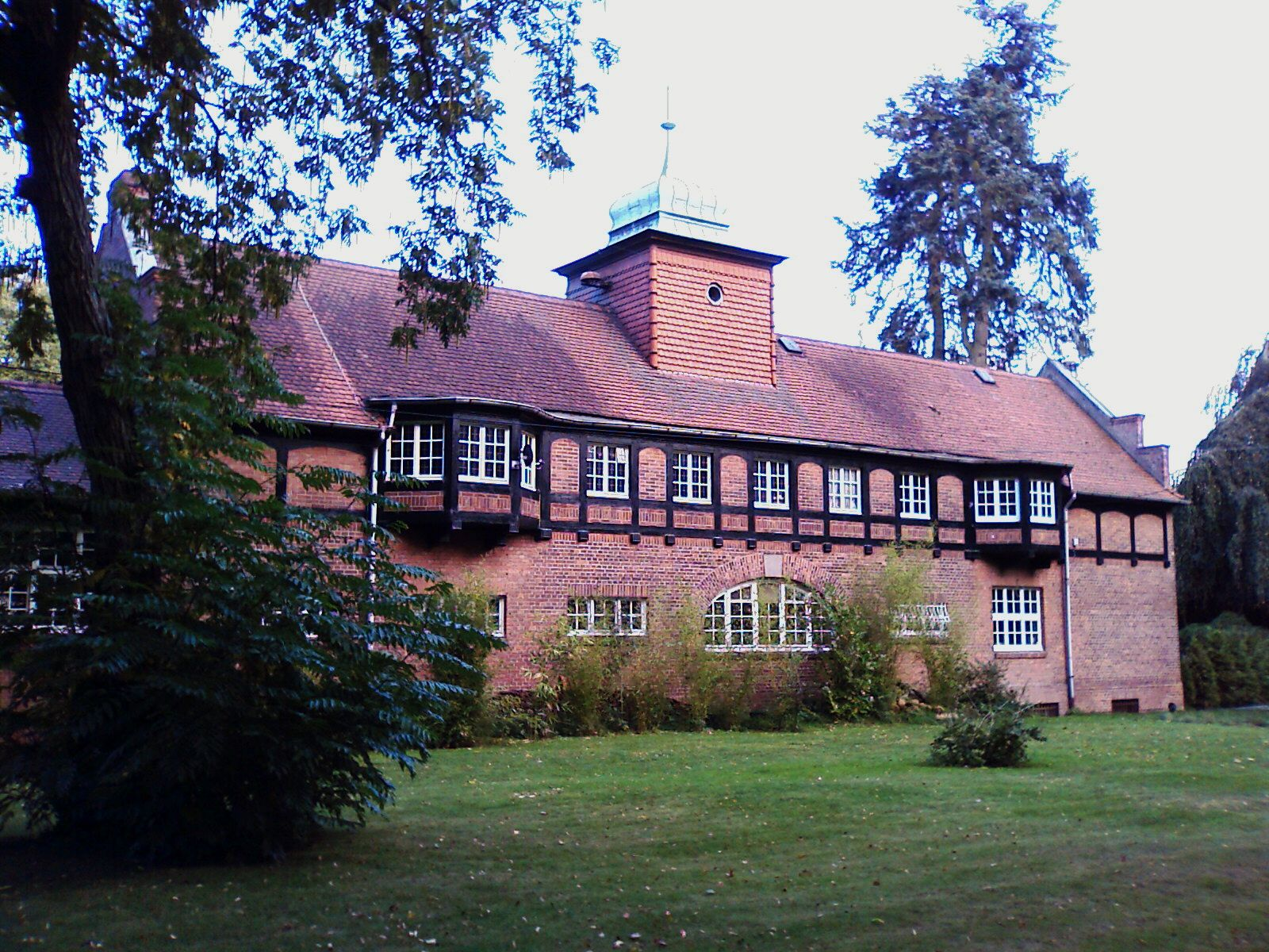 Former Jugendhof, Villa Lunugala in Barsbüttel